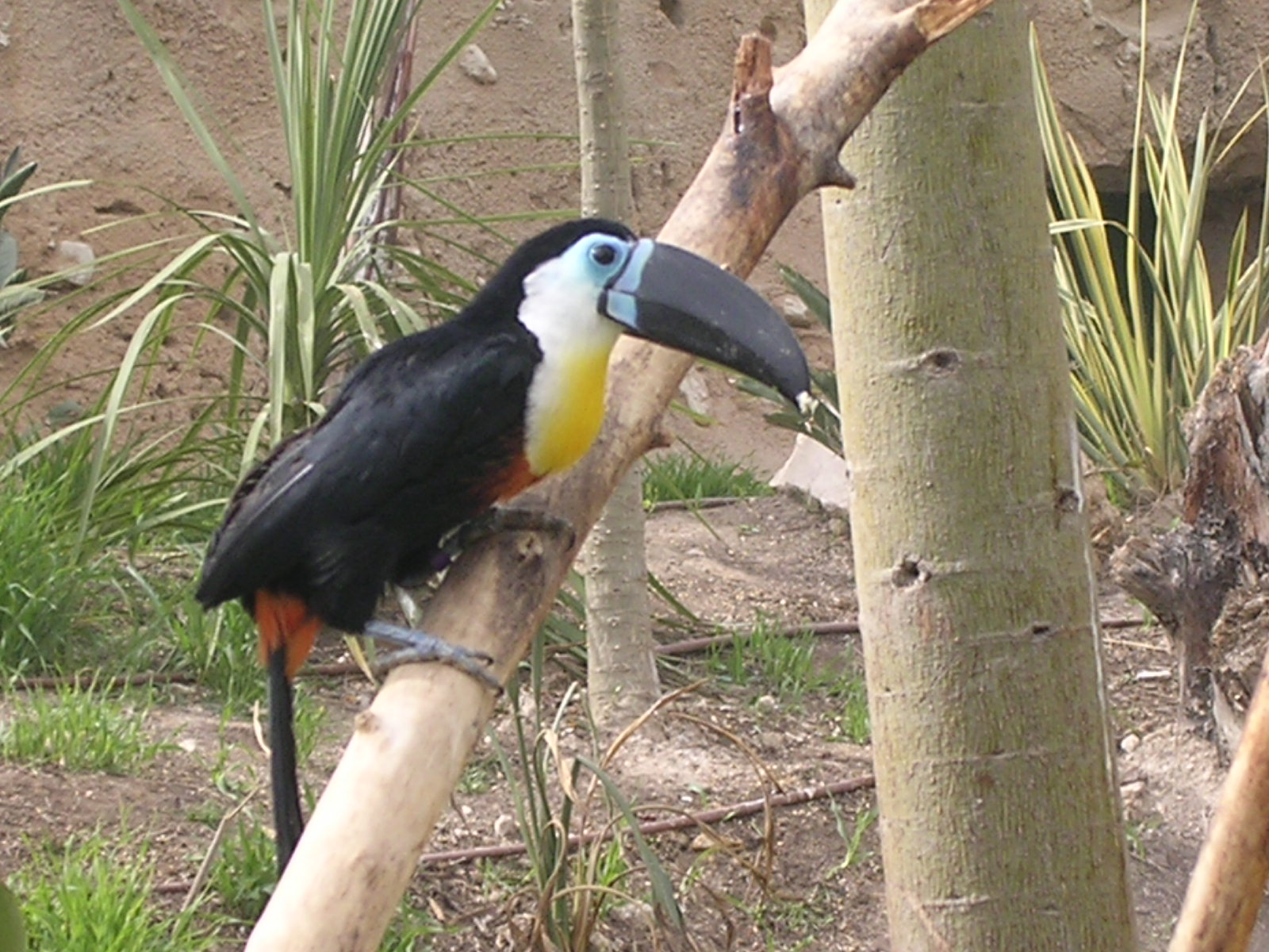 A Channel billed toucan bird in Benidorm, Valencai, Spain.